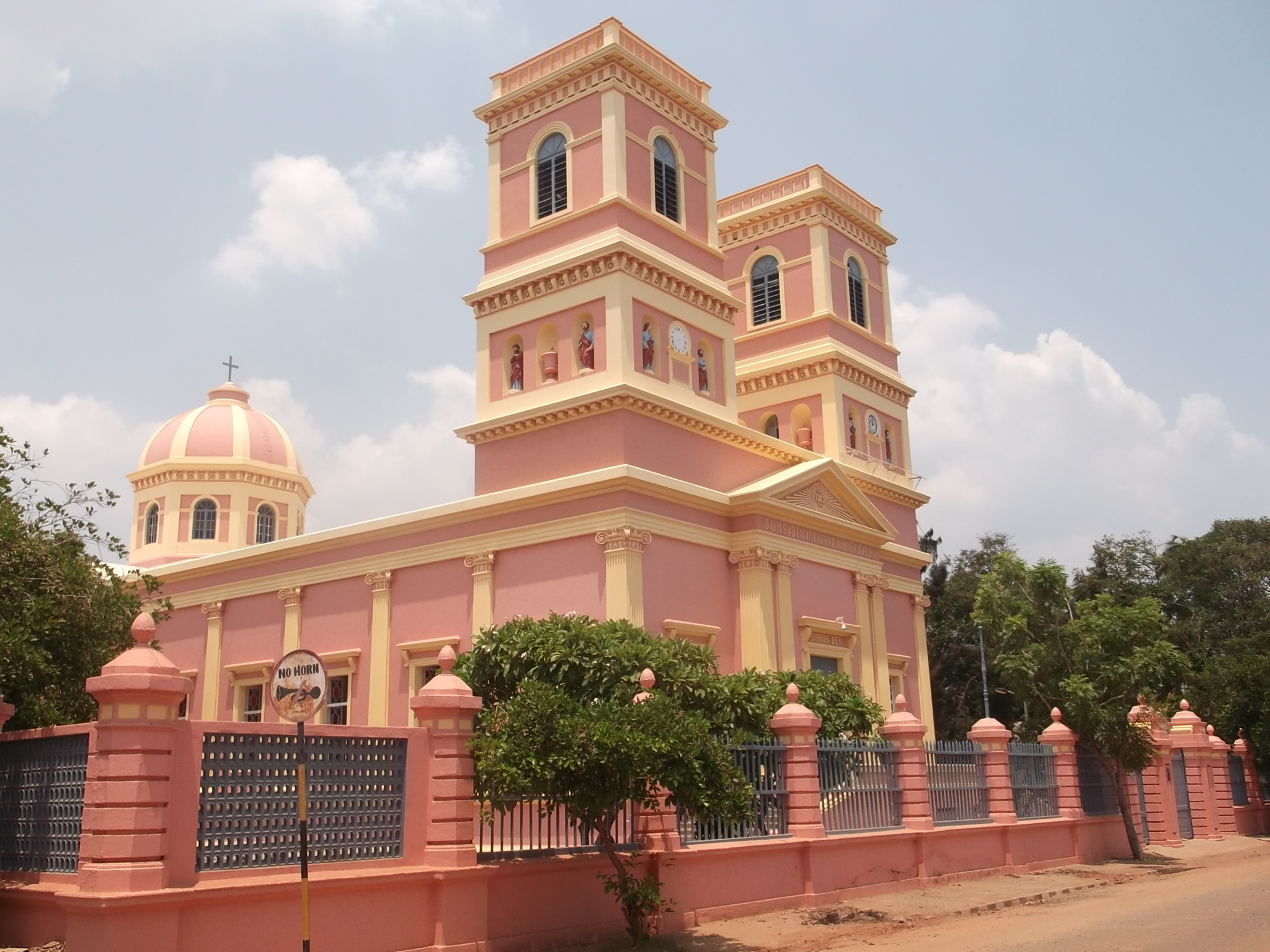 A resemblance of the Basilica at Lourdes located in Southern france.